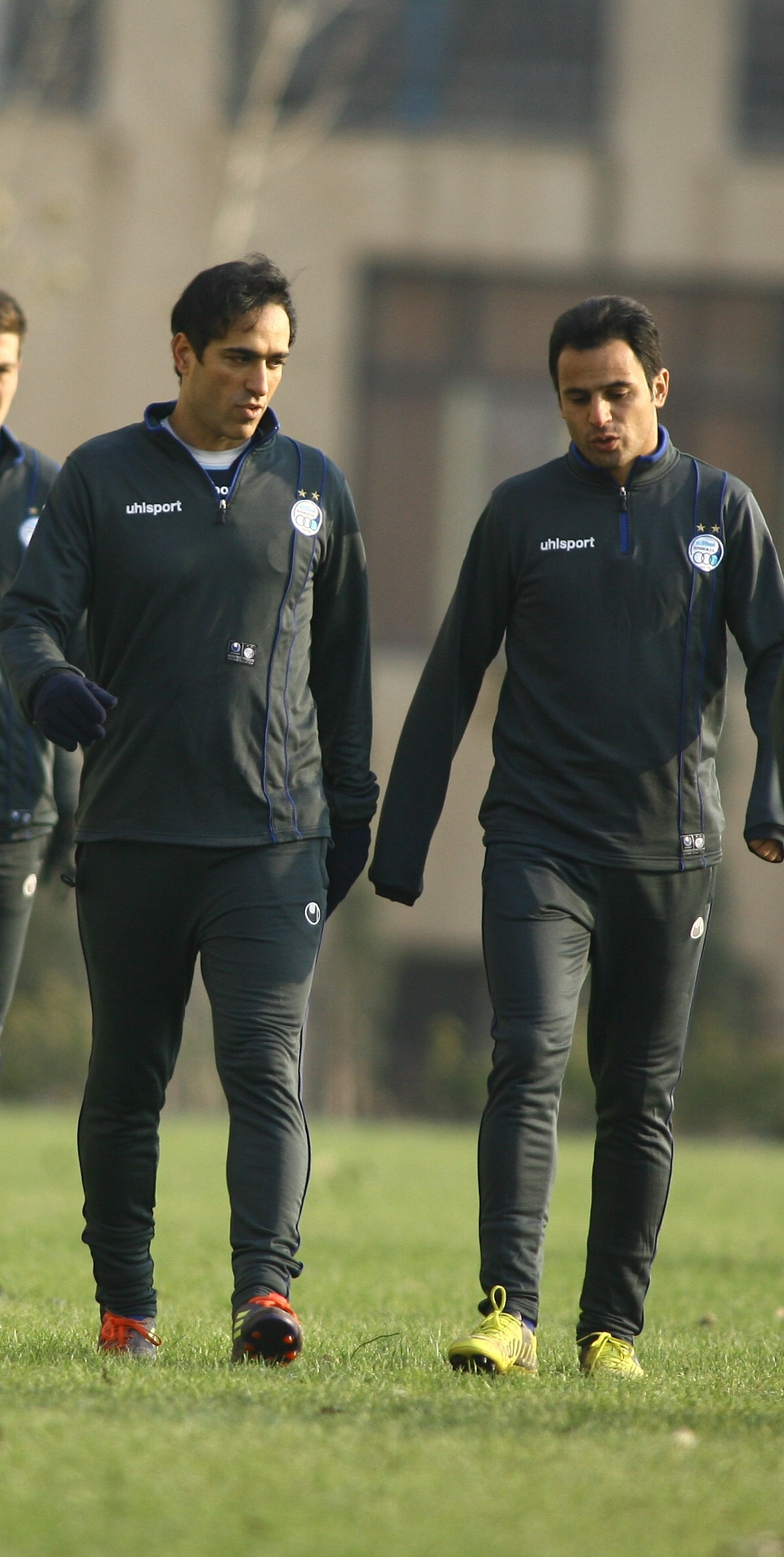 From left, Navid Faridi. From right Arash Borhani Esteghlal F.C.